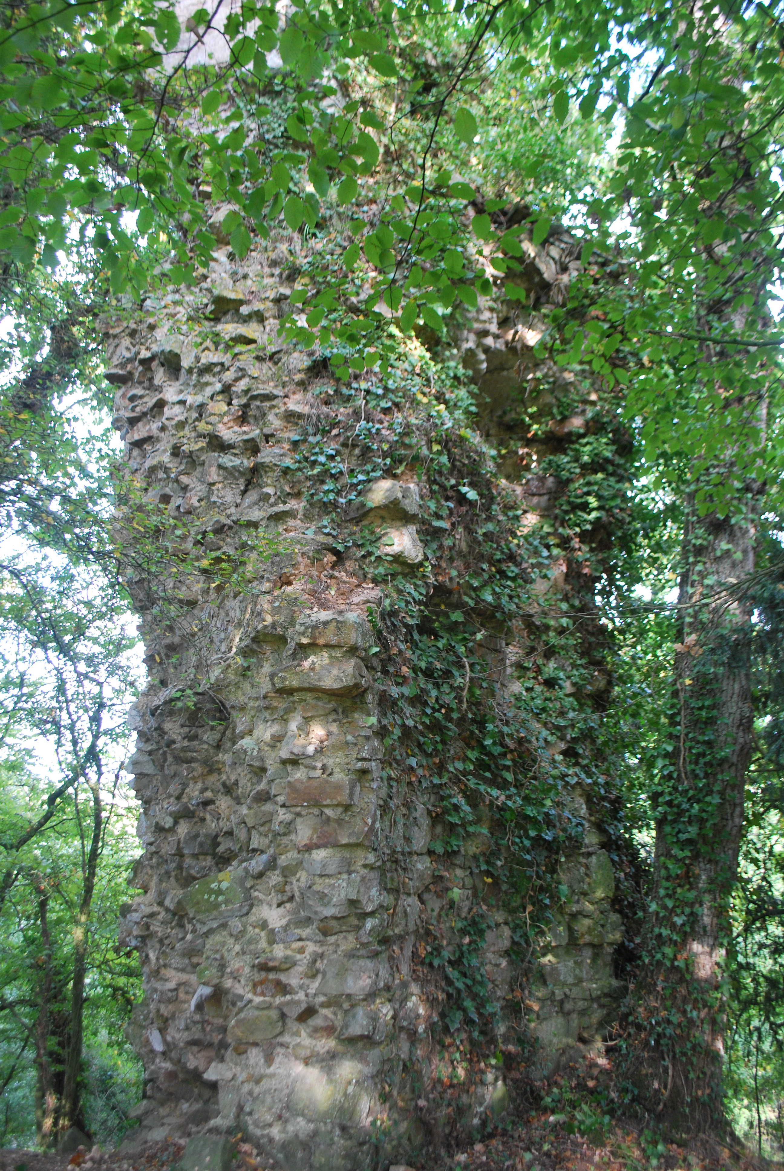 Ruins of the 13th century castle of Chevré in La Bouëxière, Brittany, France.